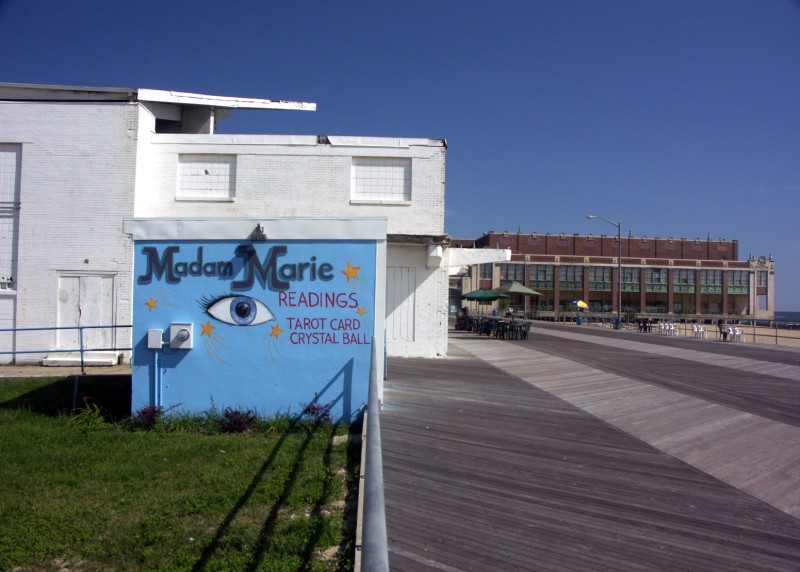 Made famous by Bruce Springsteen